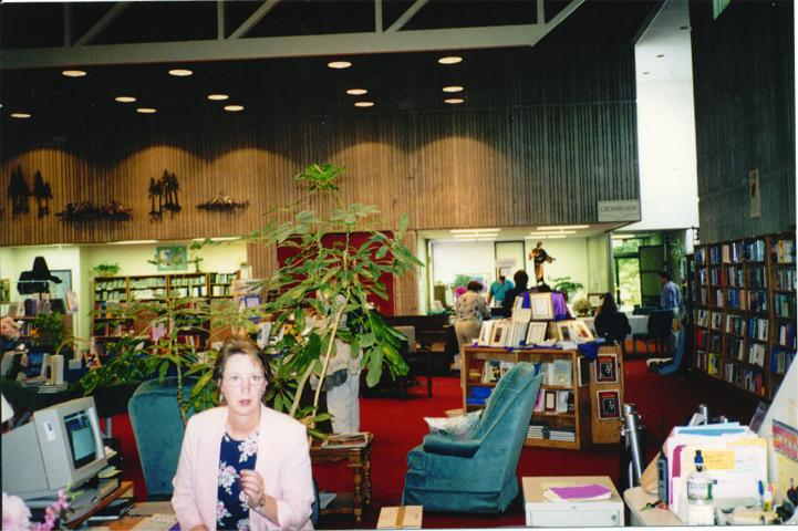 Living Enrichment Center, Living Bookends bookstore at Wilsonville location. I took this picture back in 1998. Aesculapius75 05:33, 2 October 2005 (UTC)